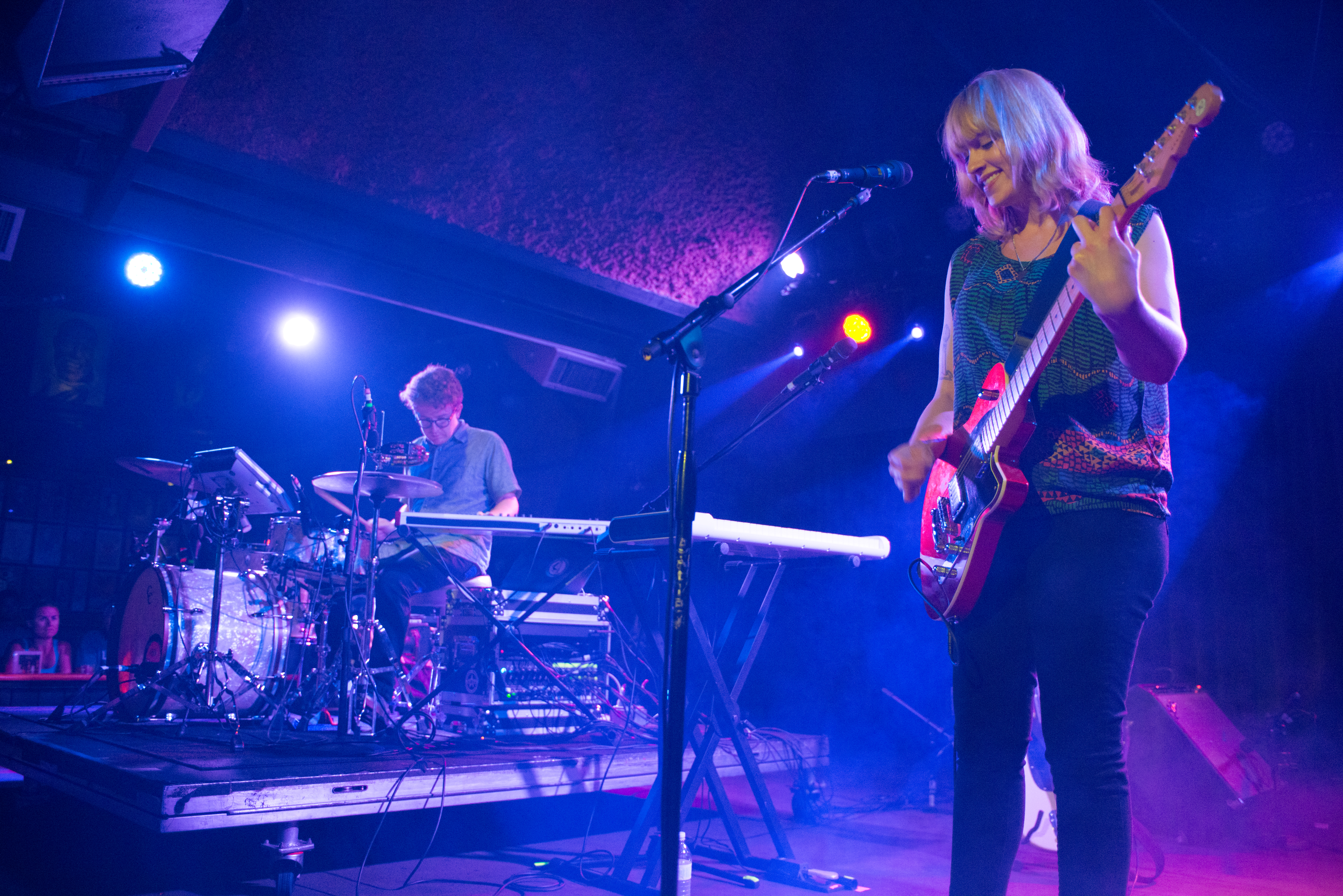 Wye Oak's Jenn Wasner and Andy Stack performing at the Belly Up in Solana Beach